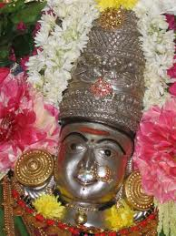 ವದ್ದಳ್ಳಿ ಶ್ರೀ ದುರ್ಗಾಂಬಾ